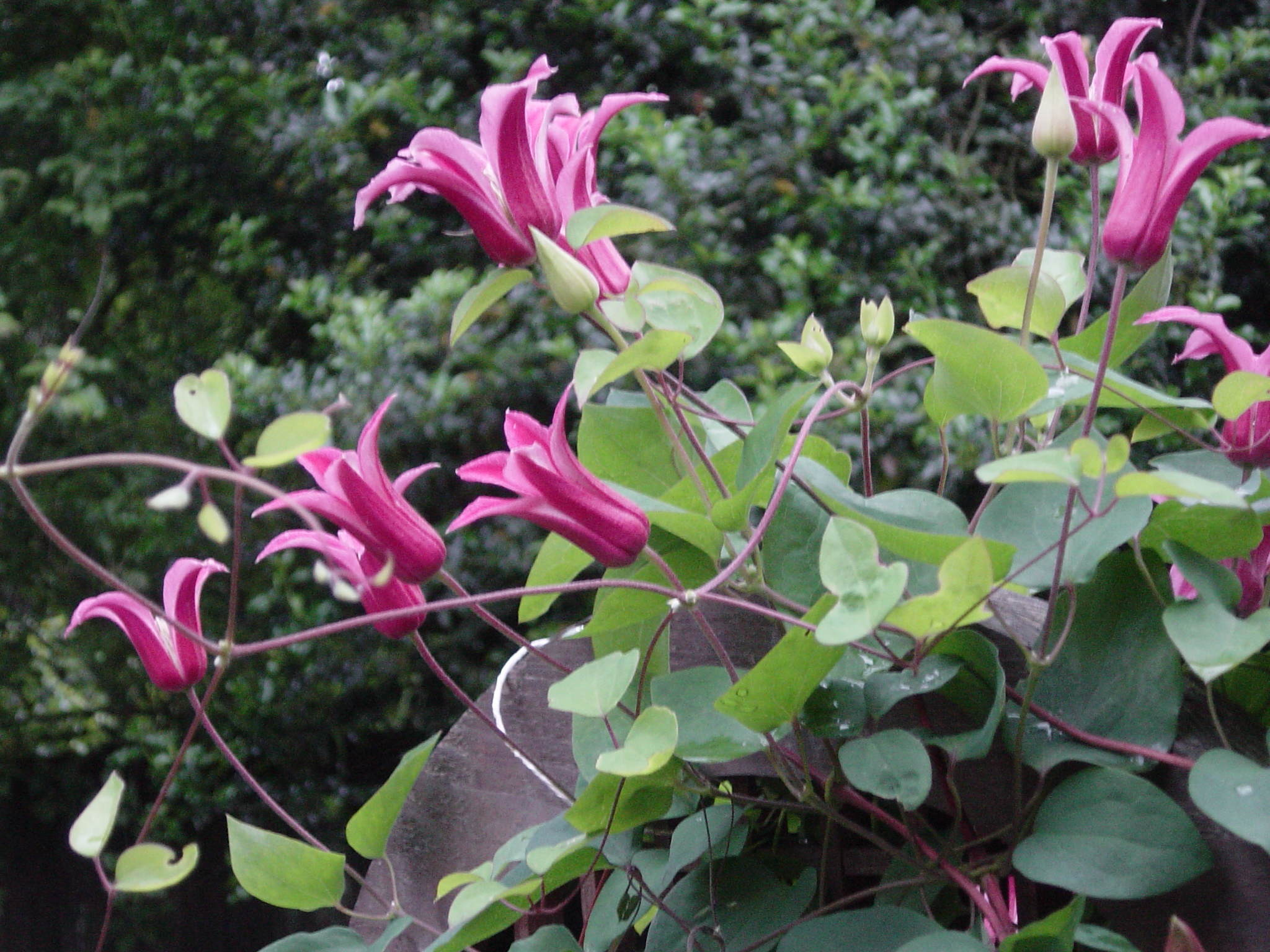 Clematis 'Princess Diana'